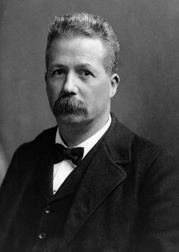 Clinton Hart Merriam, half-length portrait, facing left